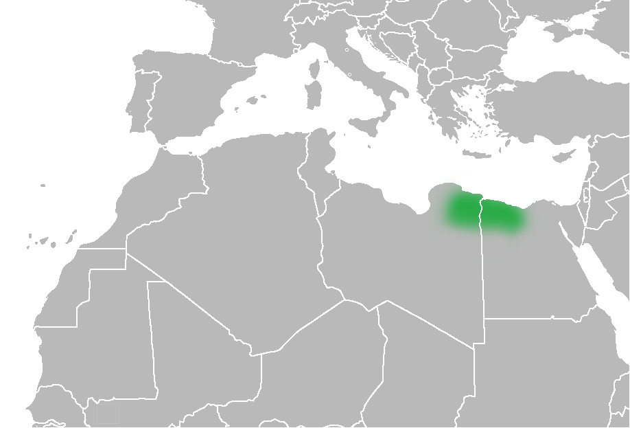 "United States of North Africa" (proposal by President Habib Bourguiba for Tunisia, Algeria and Libya 1973) and "Arab Islamic Republic" (proposal by Muammar al-Gaddafi for a union between Libya and Tunisia 1972/74)